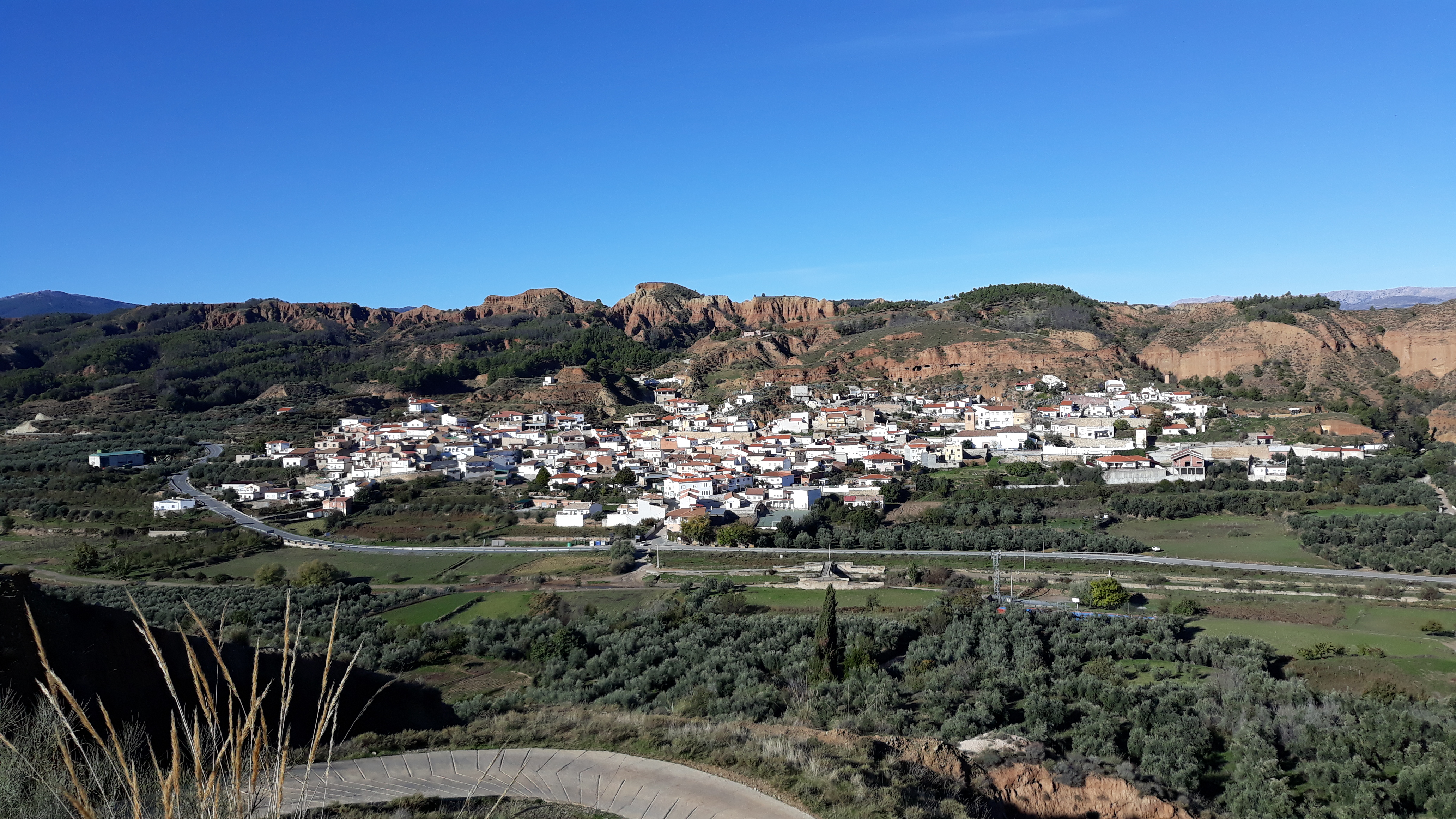 Beas de Guadix, in the comarca de Guadix. Province of Granada (Spain).